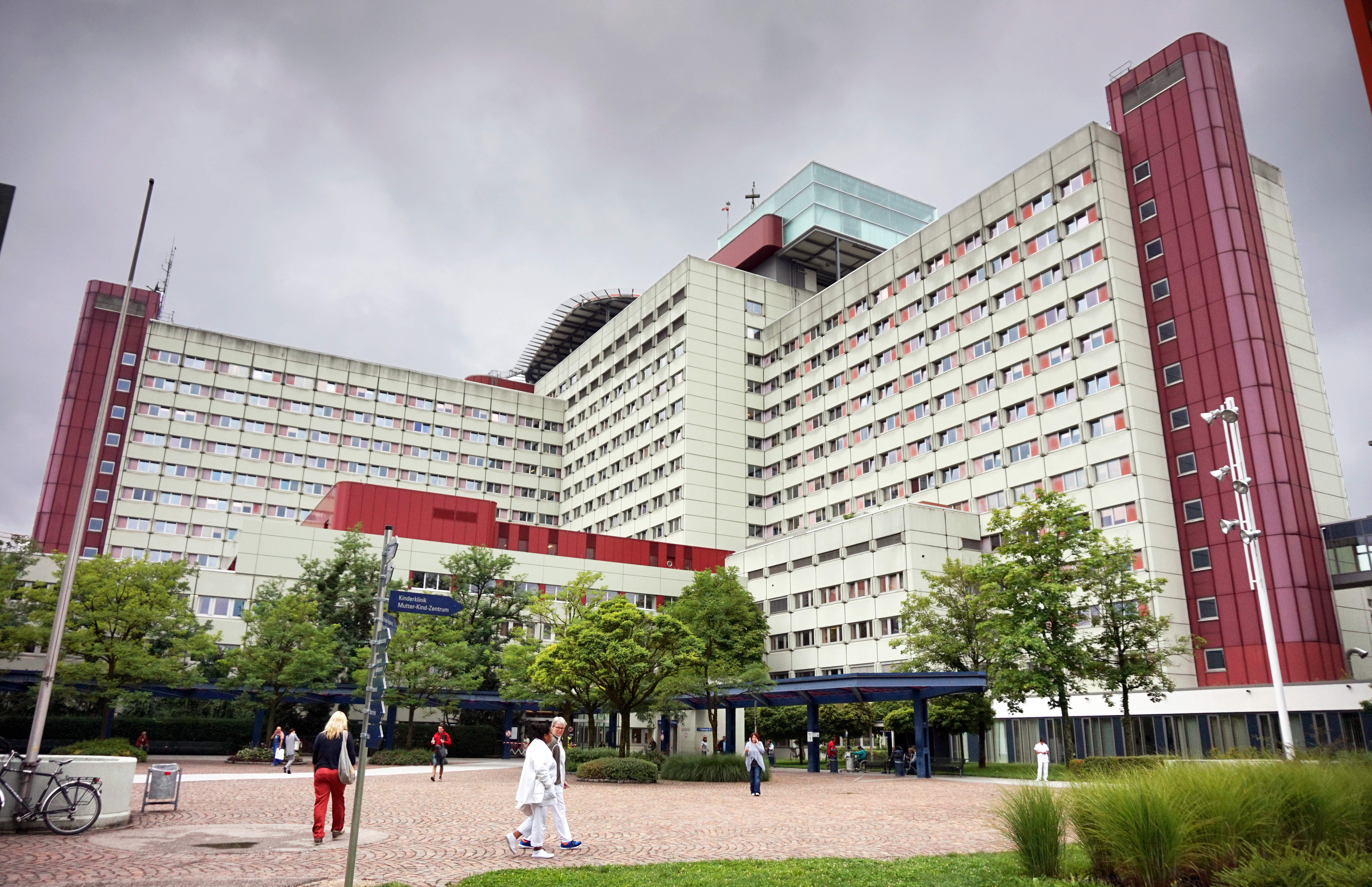 Klinikum Augsburg, Germany.This photograph was taken with a Sony ILCE-5000